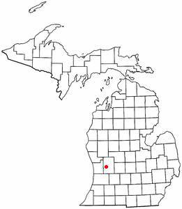 Location of Grand Rapids, Michigan